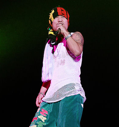 Reggae musician Han-Kun of the band Shōnan no Kaze, performing at the Hibiki Music Festival 2009 at Okayama. Cropped version of